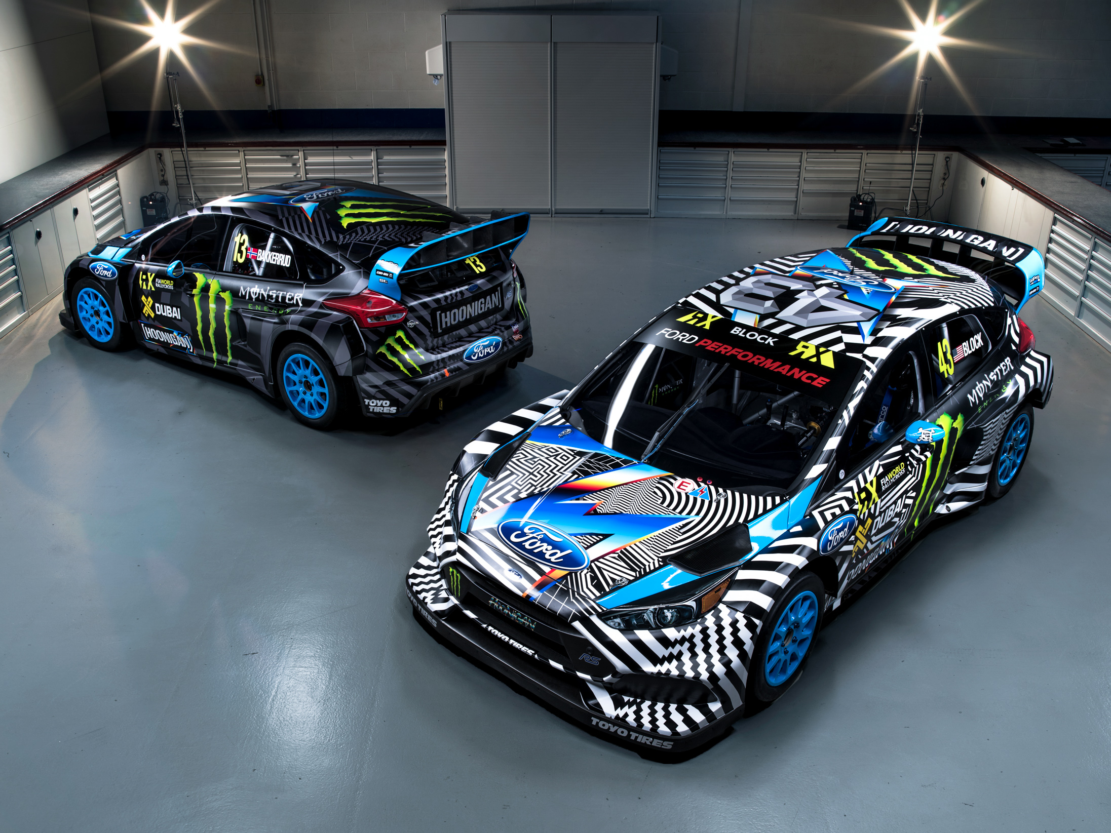 The Ford Focus RS RX of Hoonigan Racing Division. These are the 2016 World Rallycross Championship cars of Ken Block (right) and Andreas Bakkerud.